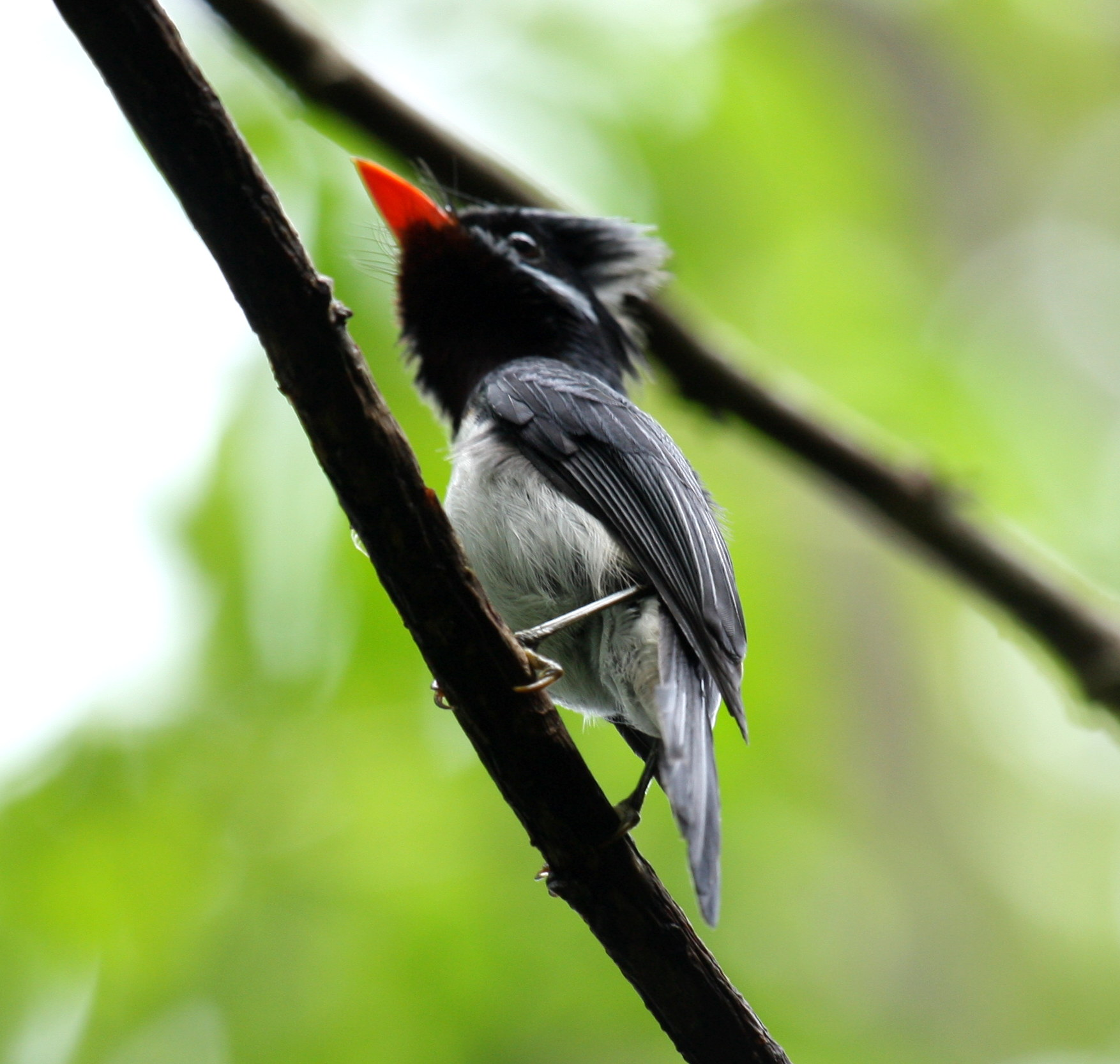 Blue-crested Flycatcher (Myiagra azureocapilla) Male in threat-posture, Vidawa, Taveuni, Fiji Isles